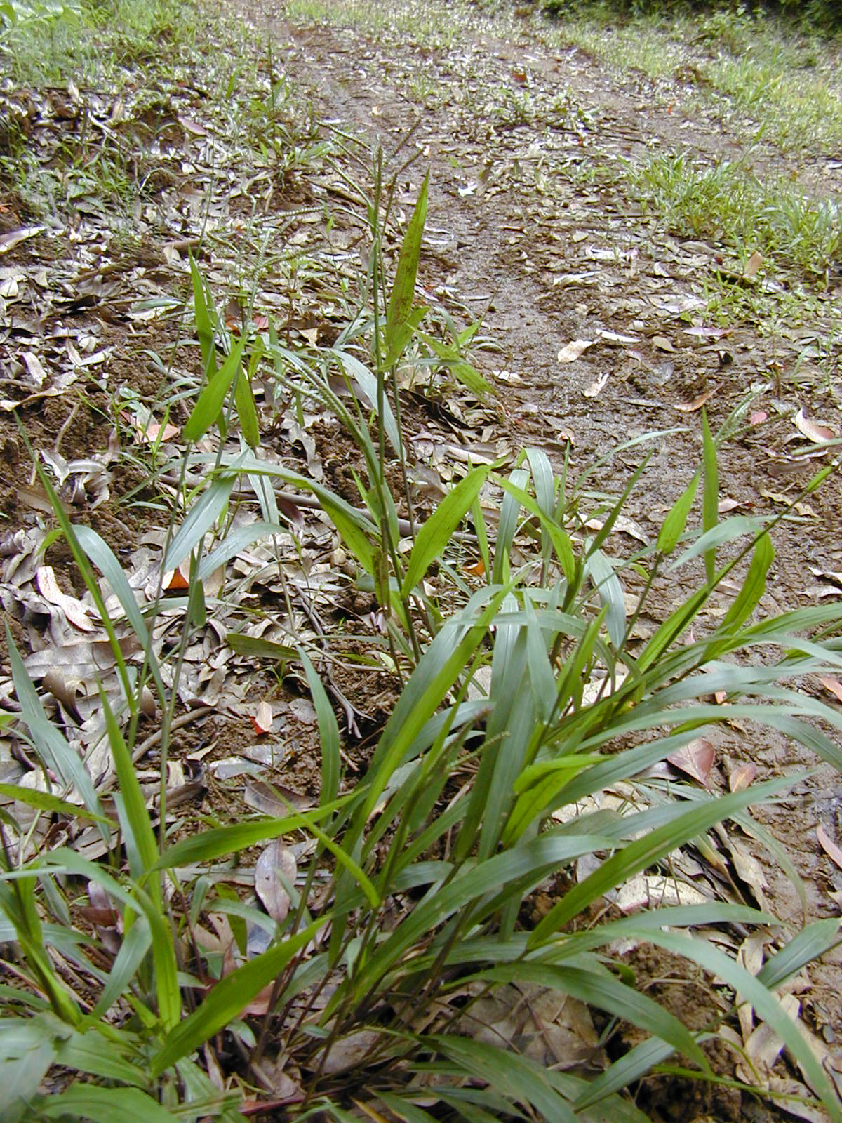 Paspalum sp. (habit). Location: Maui, Wahinepee